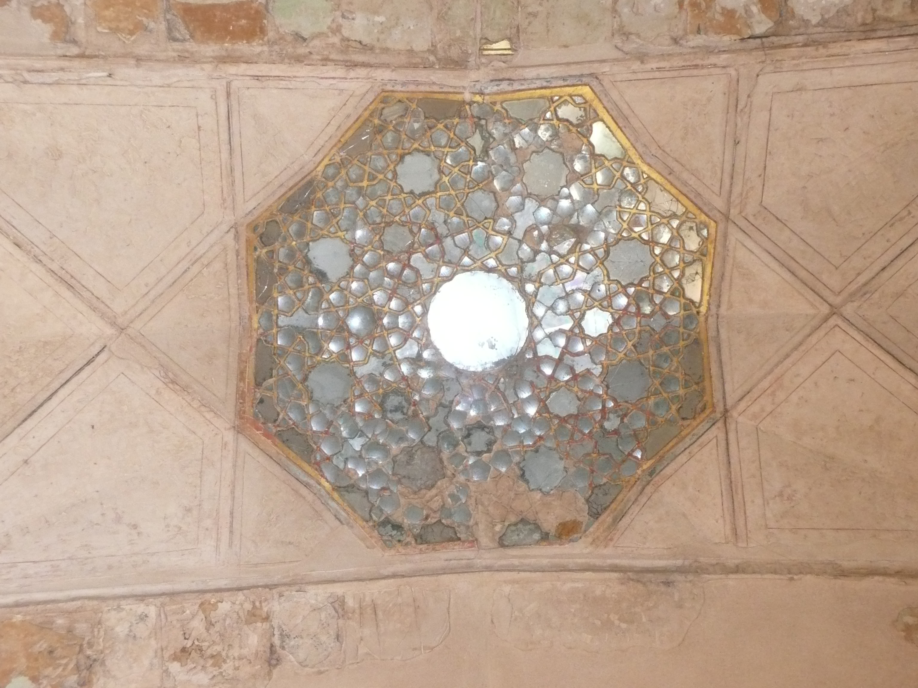 Photographs from Isfahan, Iran